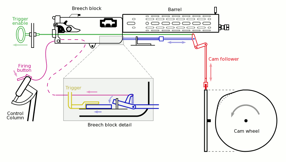 Diagram of Anthony Fokker's machine gun synchronisation gear. To fire the gun, The gun's crank is worked twice, once to load, once to cock. The green handle is pulled which lowers the red cam follower onto the cam wheel. When the cam raises the follower, the blue rod is pushed against the spring. When the pilot presses the purple firing button, inside the breech block the cable lowers the blue bridge piece so that when the blue rod is activated by the cam, the yellow trigger bar is pushed and the gun fires. Based on a diagram by Harry Woodman, Aeroplane, December 2004. Blank diagram at Image:Interrupter gear diagram.png